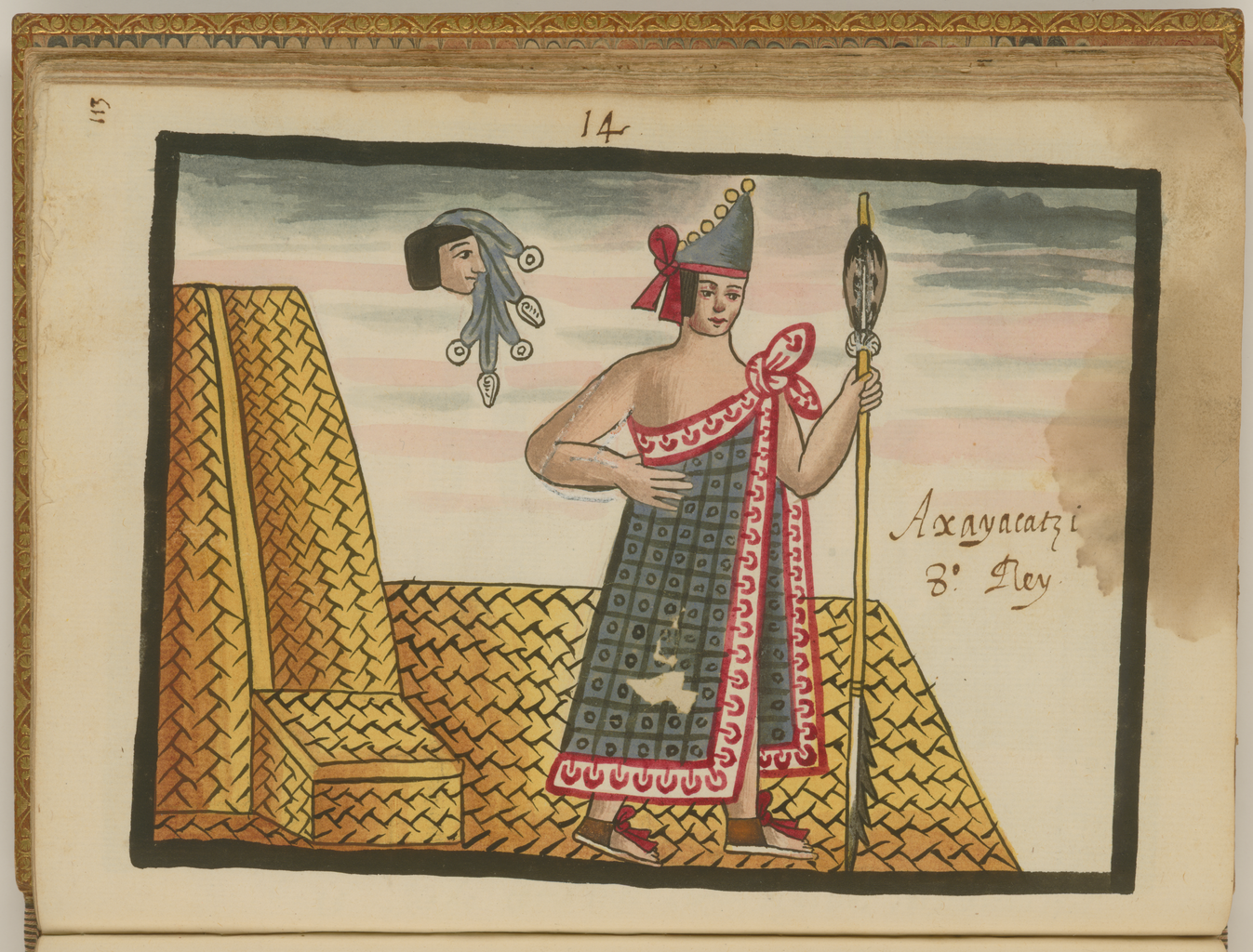 The Tovar Codex, attributed to the 16th-century Mexican Jesuit Juan de Tovar, contains detailed information about the rites and ceremonies of the Aztecs (also known as Mexica). The codex is illustrated with 51 full-page paintings in watercolor. Strongly influenced by pre-contact pictographic manuscripts, the paintings are of exceptional artistic quality. The manuscript is divided into three sections. The first section is a history of the travels of the Aztecs prior to the arrival of the Spanish. The second section, an illustrated history of the Aztecs, forms the main body of the manuscript. The third section contains the Tovar calendar. This illustration, from the second section, shows Axayácatl, holding a spear or scepter and wearing a crown with gold ornaments, standing on a reed mat and next to a basketwork throne. Above him is a head with water flowing from it. Axayácatl (reigned 1469–81) was the sixth Aztec king (the text incorrectly identifies him as the eighth), and a grandson of Moctezuma I (also seen as Montezuma I) and brother of Tizoc. Axayácatl’s name meant “face of water.” Axayácatl, Emperor of Mexico, 1449-1481; Aztecs; Codex; Indians of Mexico; Indigenous peoples; Kings and rulers; Mesoamerica; Tovar Codex